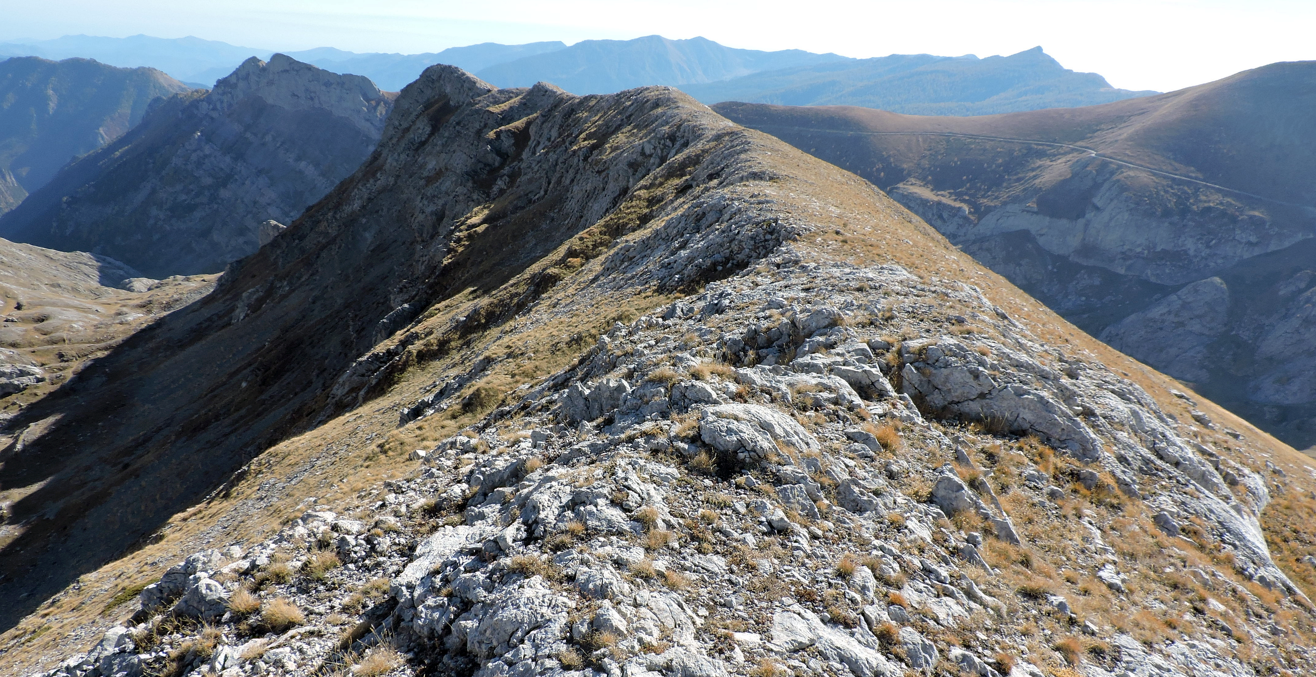 Cima di Gaina (Italian/French border, Ligurian Alps): southern view